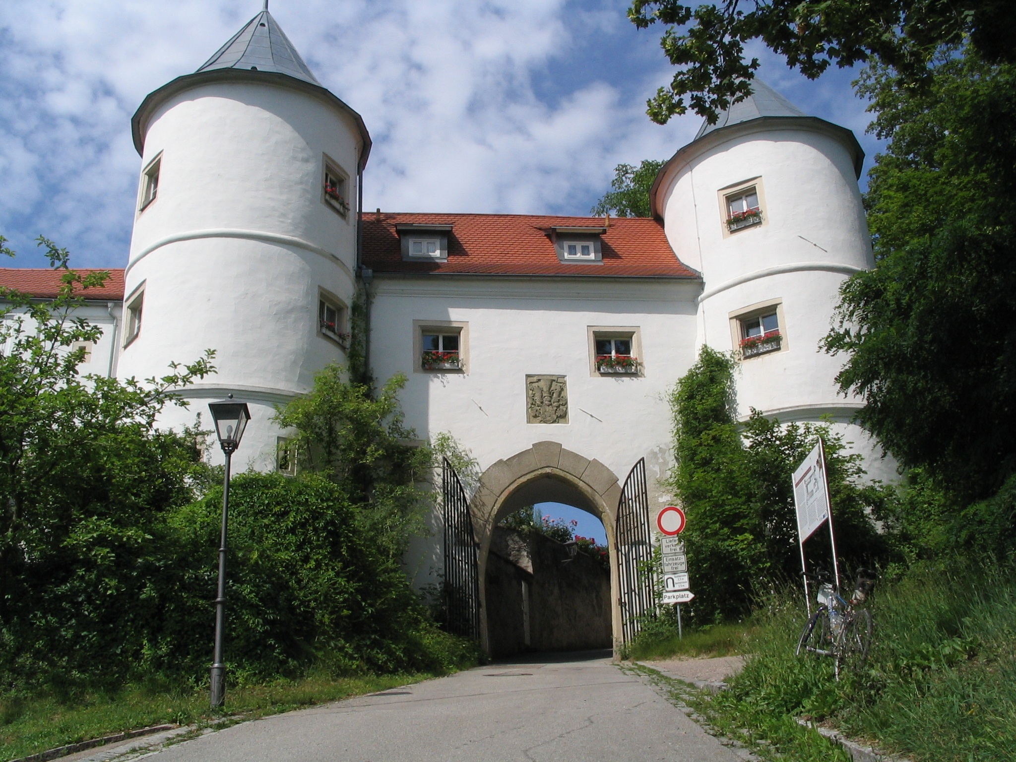 Castle Wörth an der Donau, Bavaria, Germany